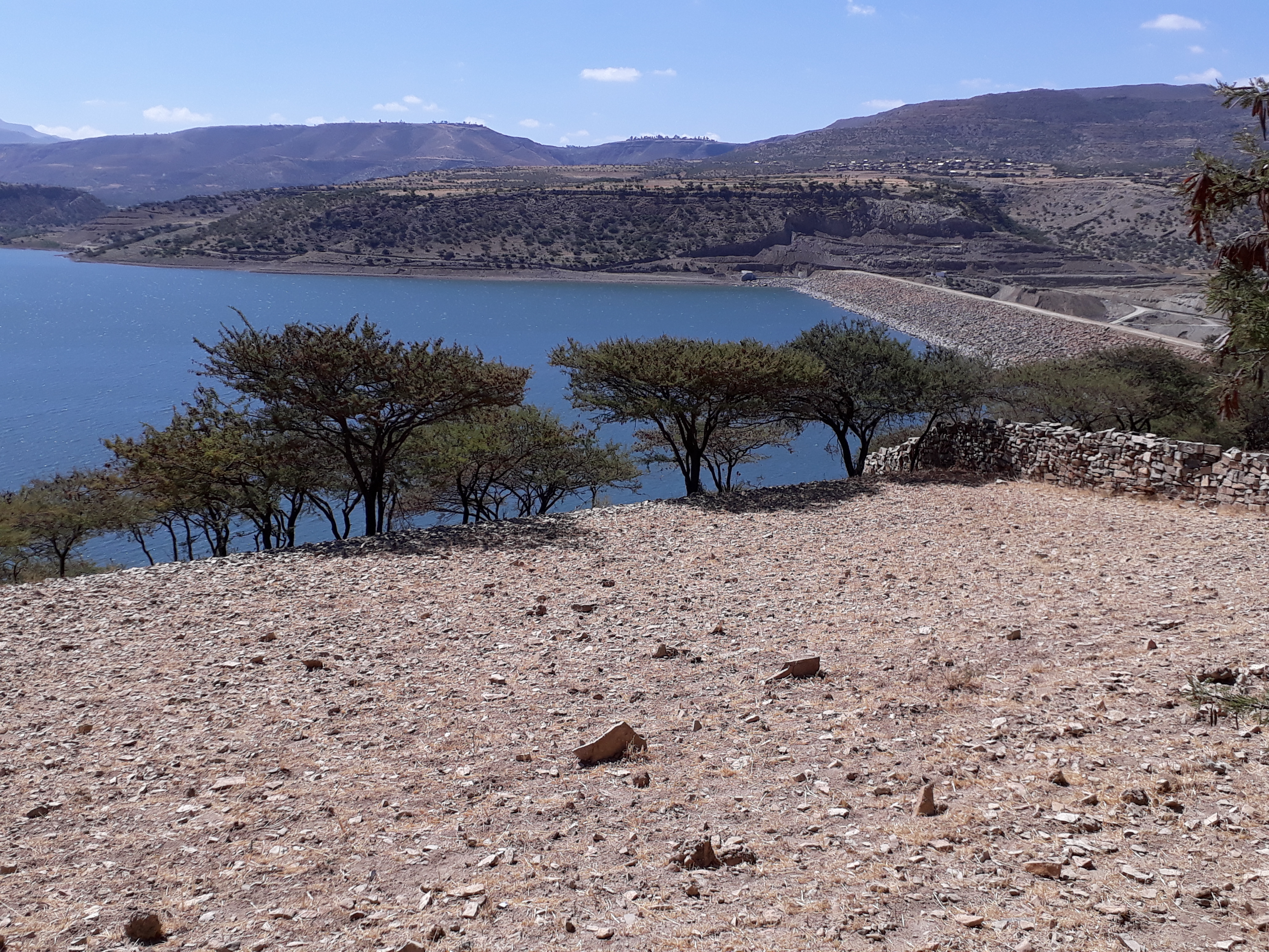 May Gabat dam